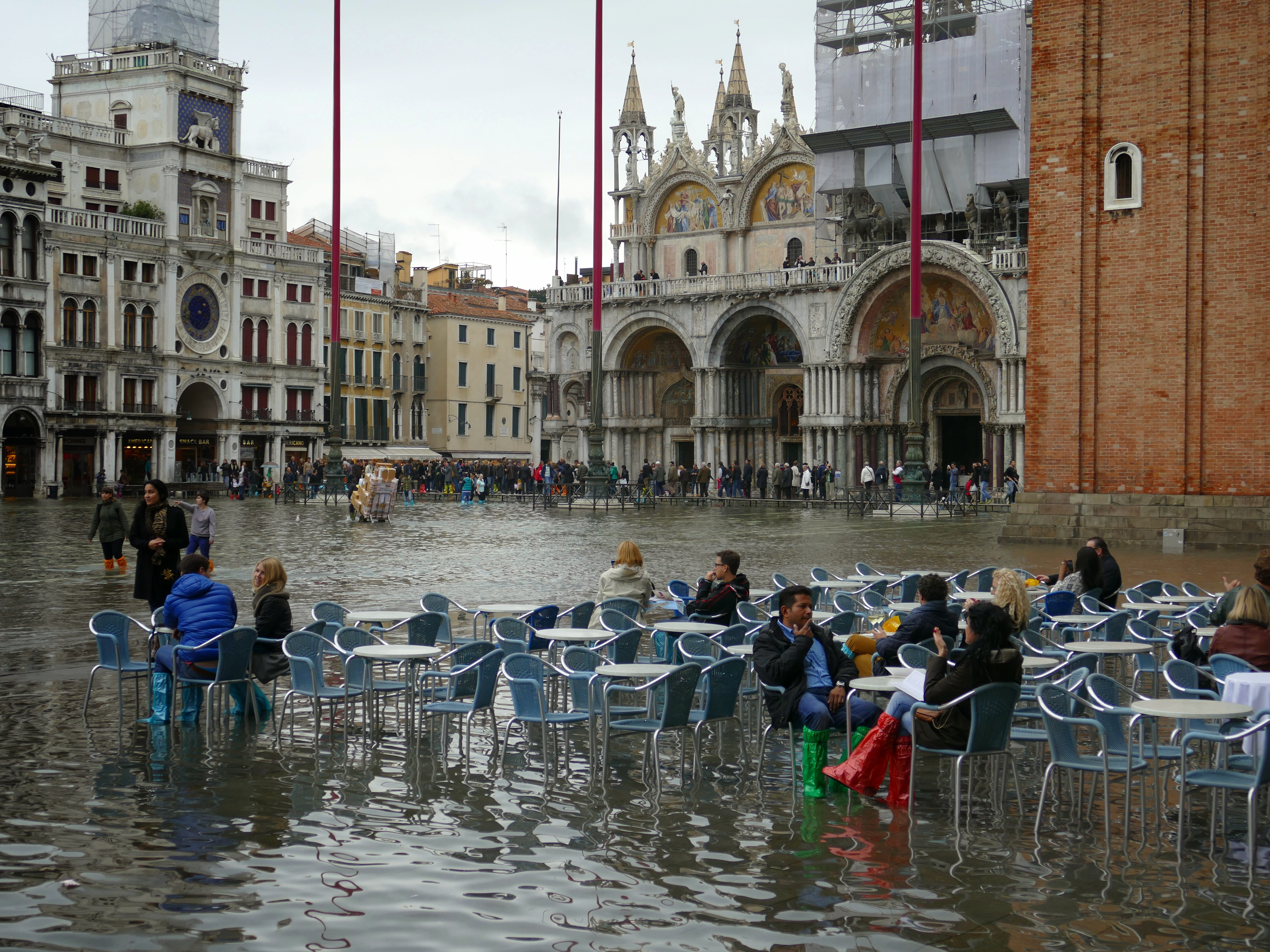 San Marco, 30100 Venice, Italy